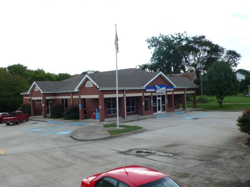 The U.S. Post Office in Rising Fawn, Georgia.